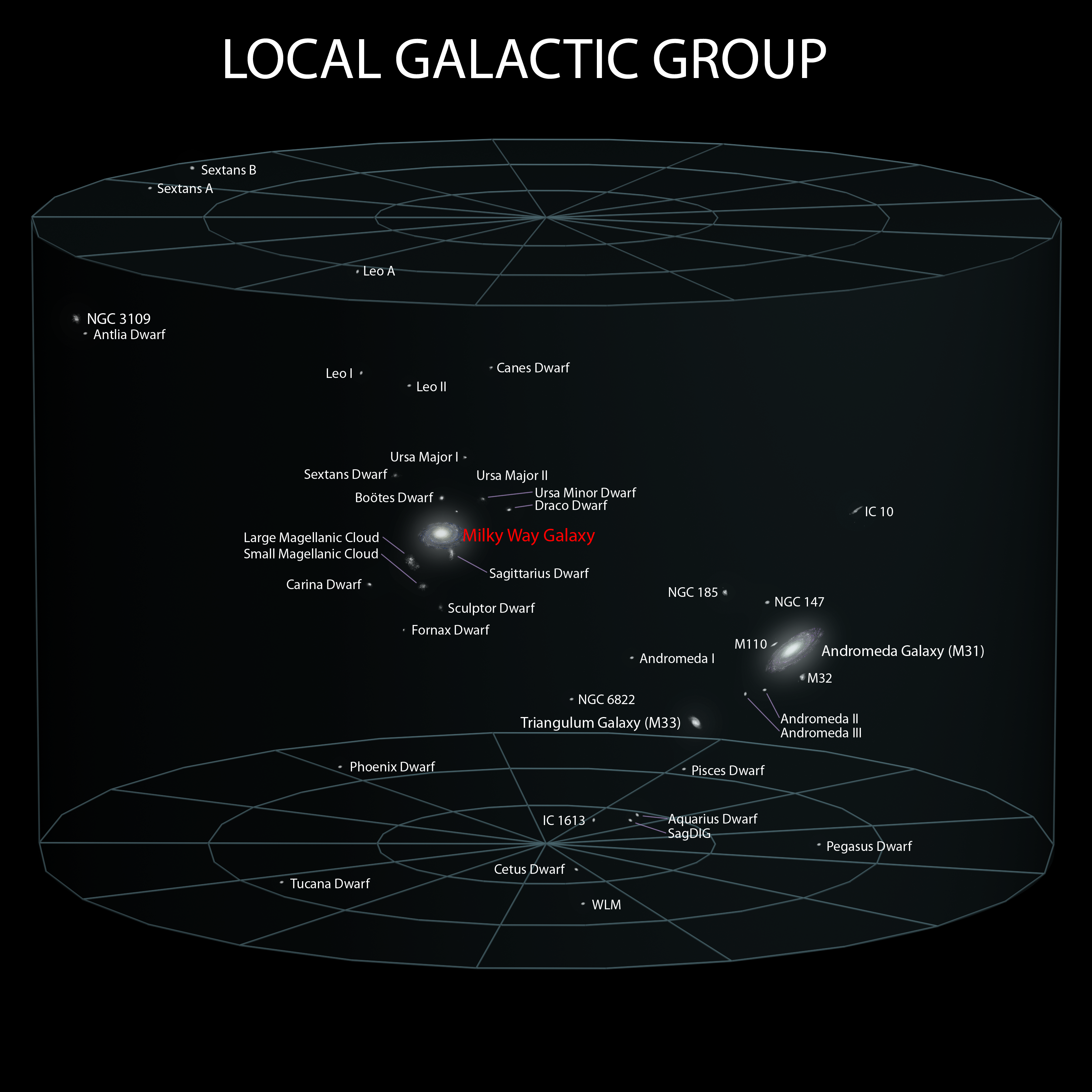 The full compilation of the image is located here: File:Earth's_Location_in_the_Universe_(JPEG).jpg NOTE: Please contact the author if requiring alterations or changes to the image for different language wiki's or for publication questions and concerns. I do ask that when redistributing my work, it be credited with the my name: Andrew Z. Colvin as I am the original author. I appreciate the cooperation and consideration of the Creative Commons Attribution-ShareAlike 3.0 Unported License and the GNU Free Documentation License agreements.